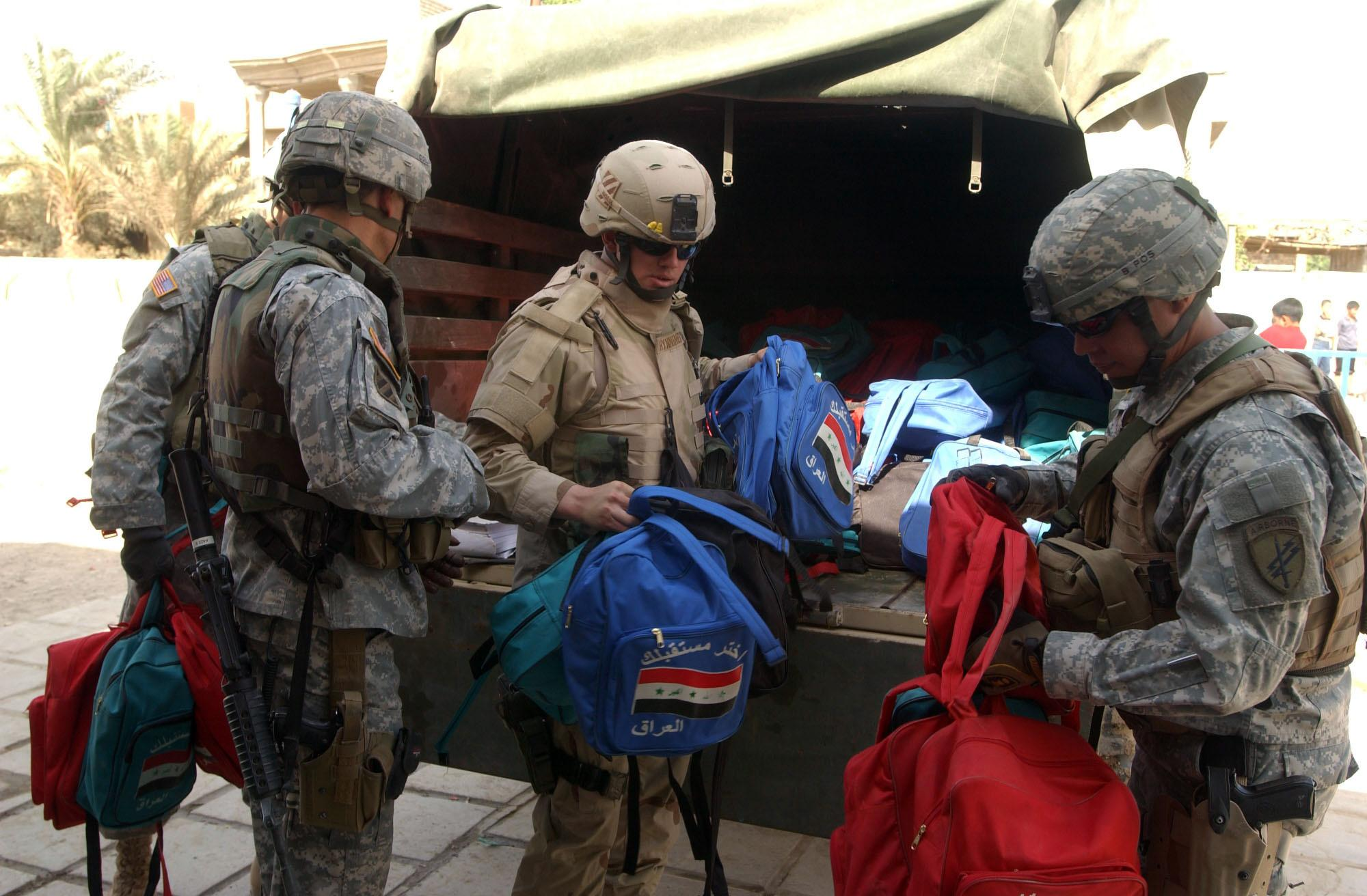 The 301st PSYOP Company, Army Reserve, Calif., and 3-7 Cavalry, Fort Stewart, Ga., soldiers give away school supplies in Safia Bint Abdul Mutaleb School.